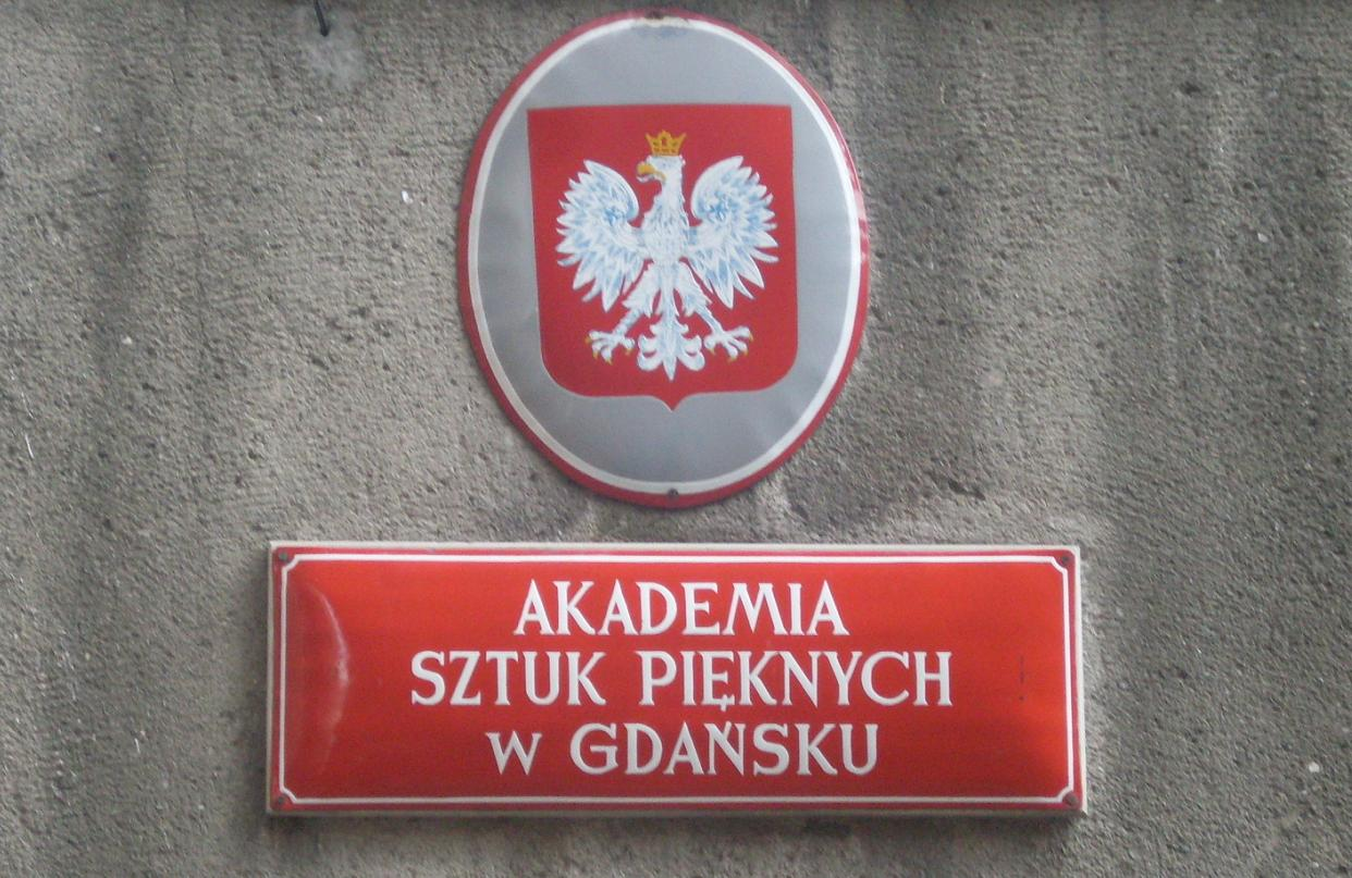 Information board of Academy of Fine Arts in Gdańsk.